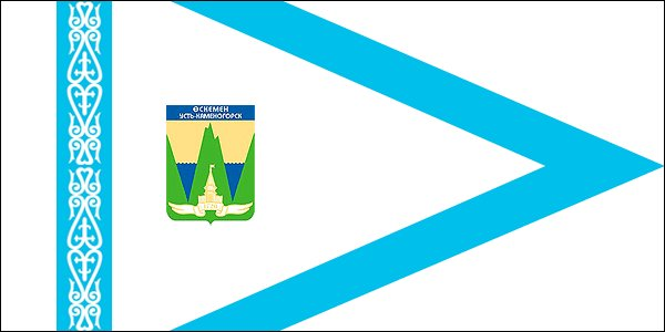 Flag of Oskemen